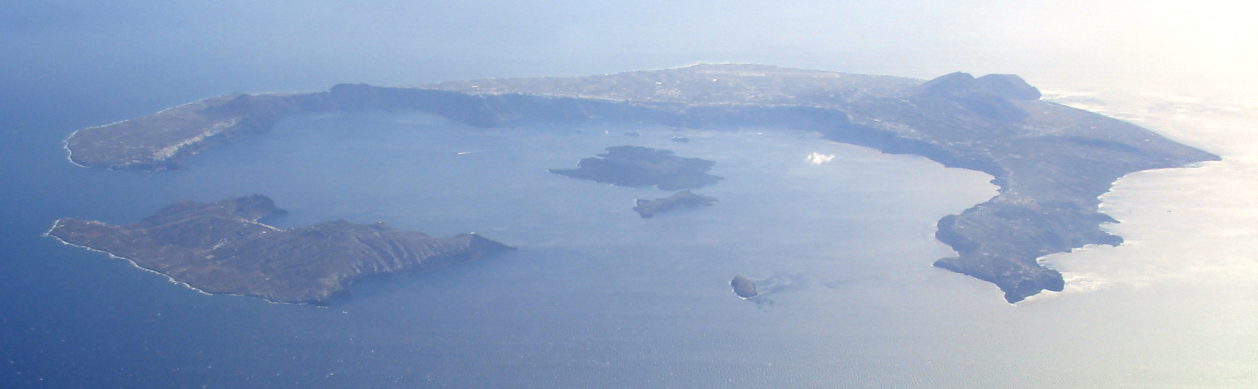 Santorini -Aerial Photography